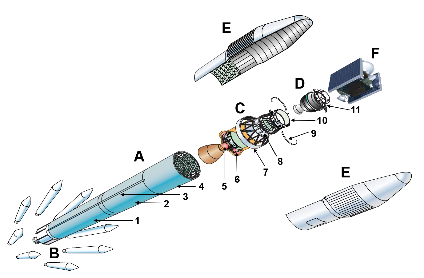 Delta II Heavy 2925H-9.5 including Star 48 upper stage